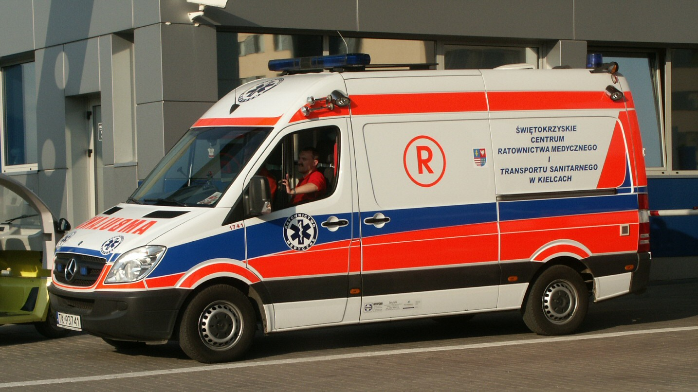 Polish ambulance Mercedes-Benz in Kielce, Poland